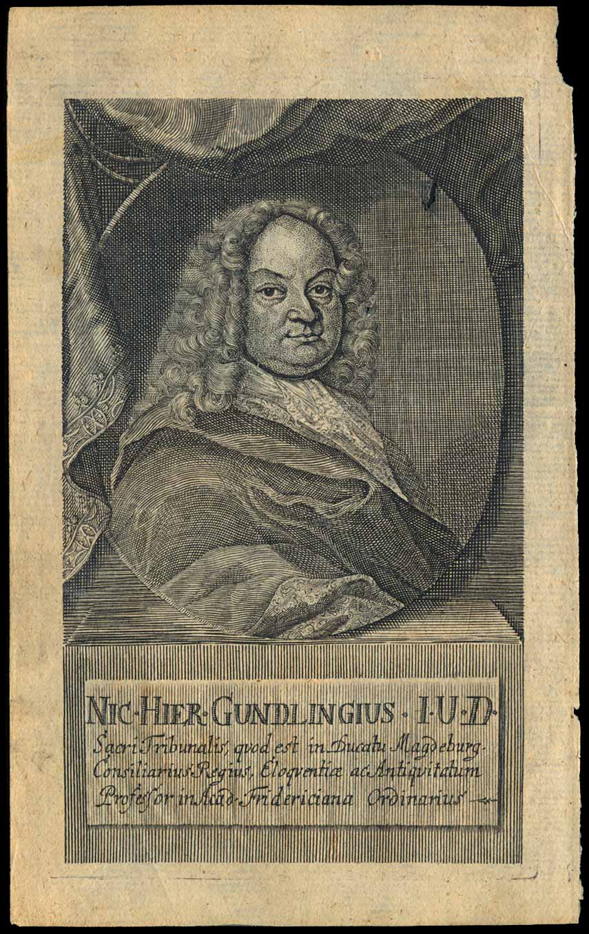 Chalcography depicting Nikolaus Hieronymus Gundling